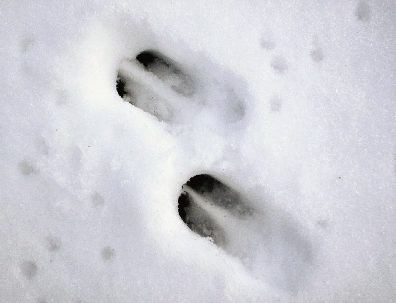 Roe deer (Capreolus capreolus) tracks